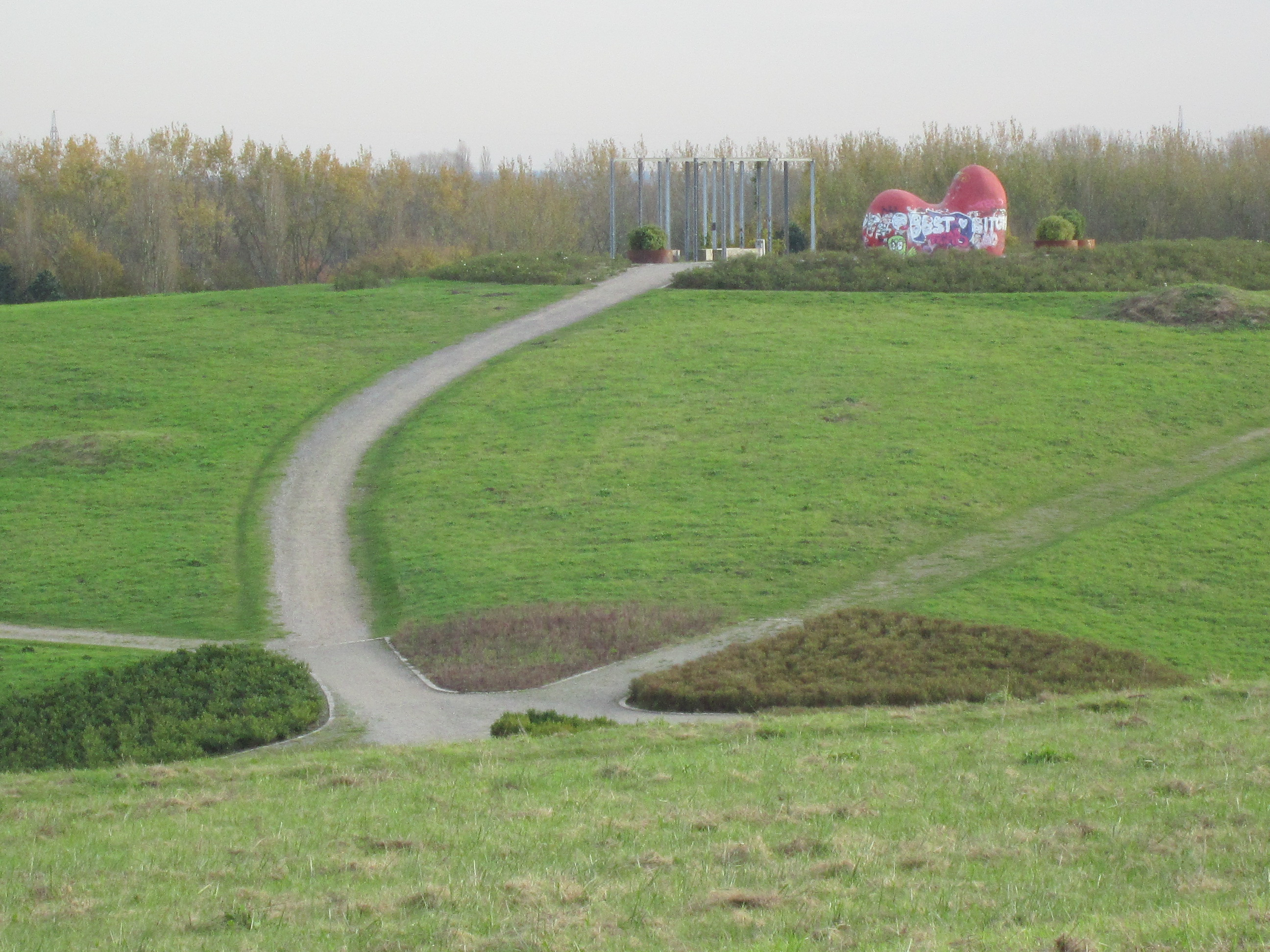 View to the the southern hill of the "Utkiek" (former garbage bing in Osternburg) from the northern summit